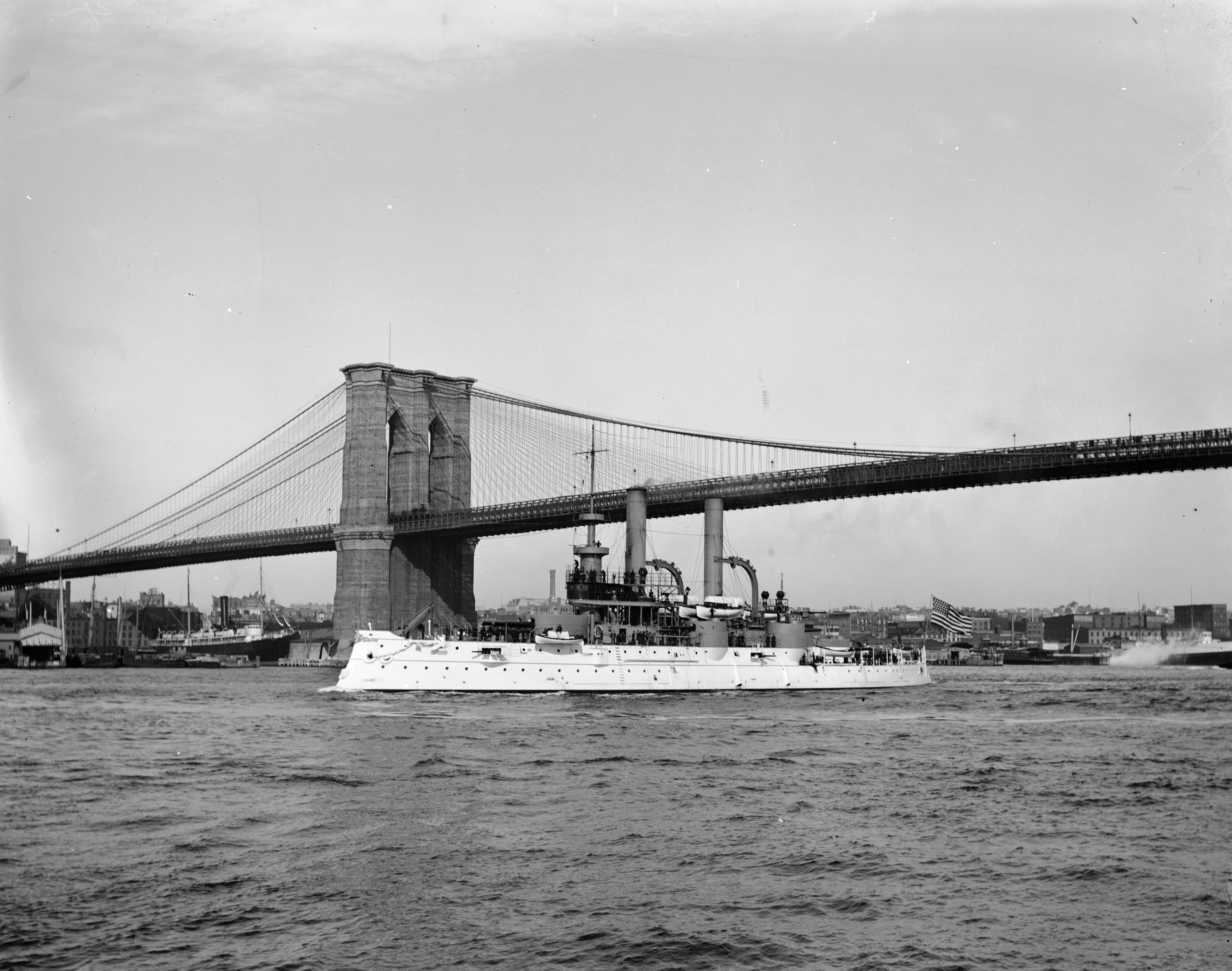 LC-DIG-DET-4a14261: USS Iowa (Battleship #4), port view, going under the Brooklyn Bridge. Photographed by Detroit Publishing, between 1897 and 1901. (6/12/2015).